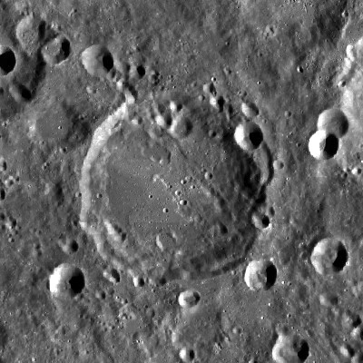 Kekule lunar crater LROC image. The furrows and secondaries are of Orientale basin source.